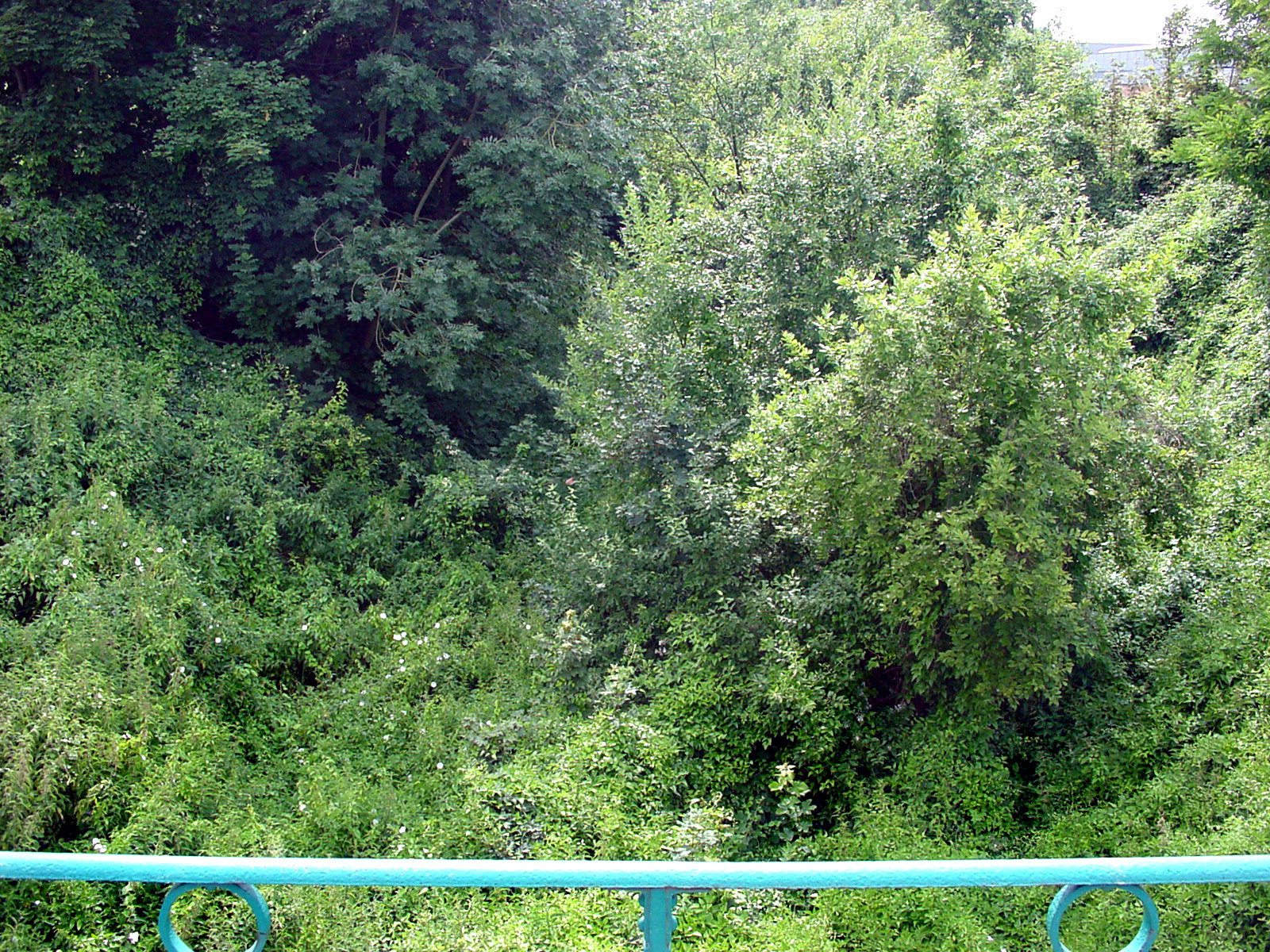 One of the former "Cavaliers miniers" (the name given to ancient railroad private coal mine in northern France). Some of these structures have now a true value of "biological corridor" and are classed as a part of the "ecological network of the "bassin minier". Others have been converted into trails for walking (pedestrians, horses, bicycles)